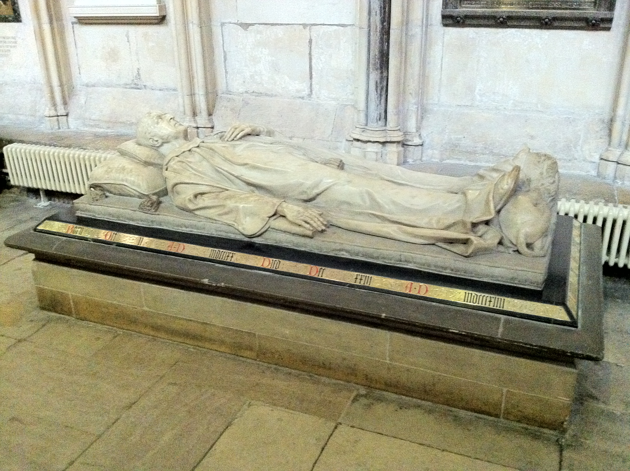 Memorial to Dr Stephen Beckwith, in the north choir aisle of York Minster.Effigy by Joseph Bentley Leyland